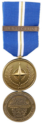 Eagle Assist